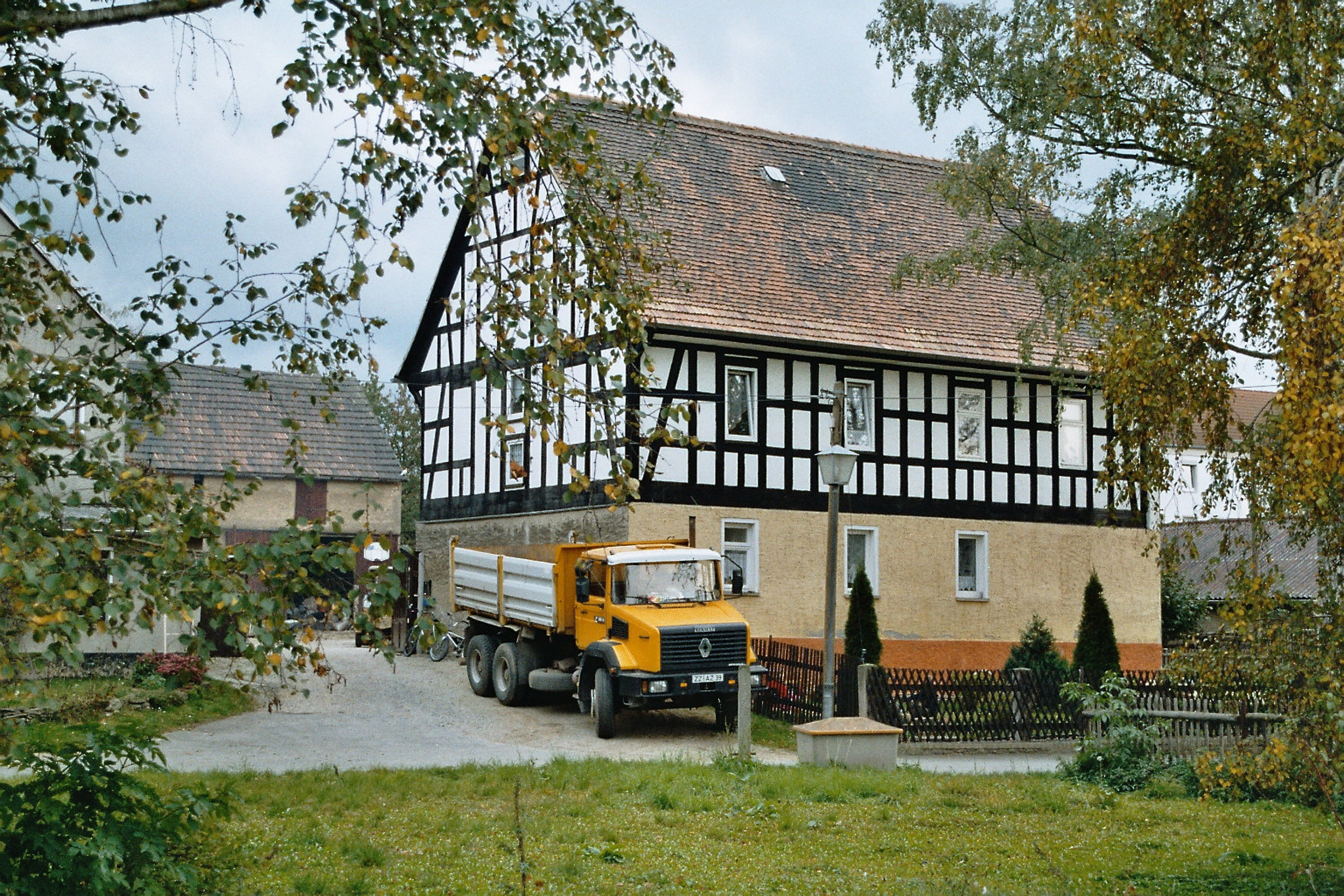 Bethenhausen- half-timbered house